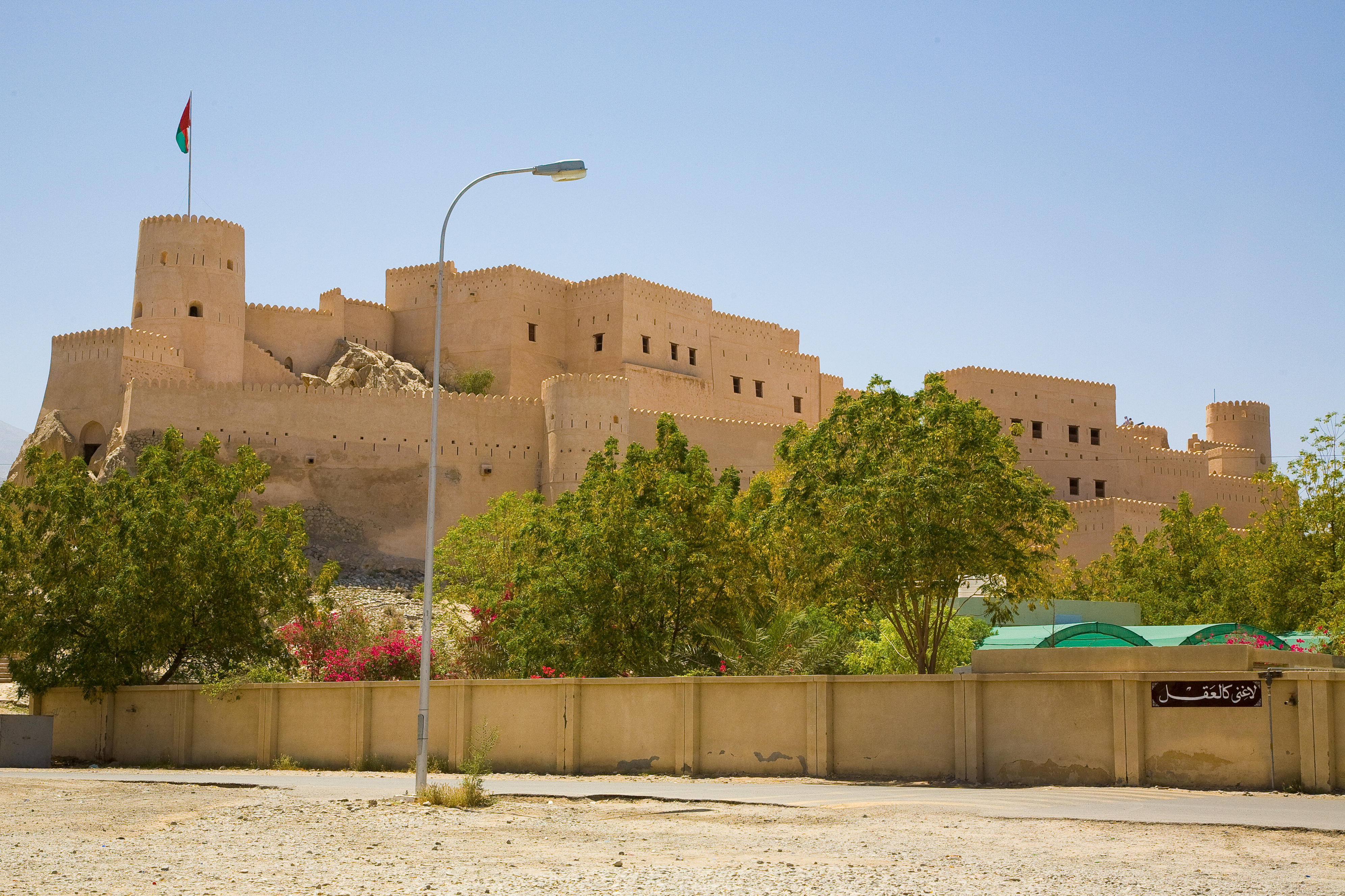 Nakhal Fort, Oman